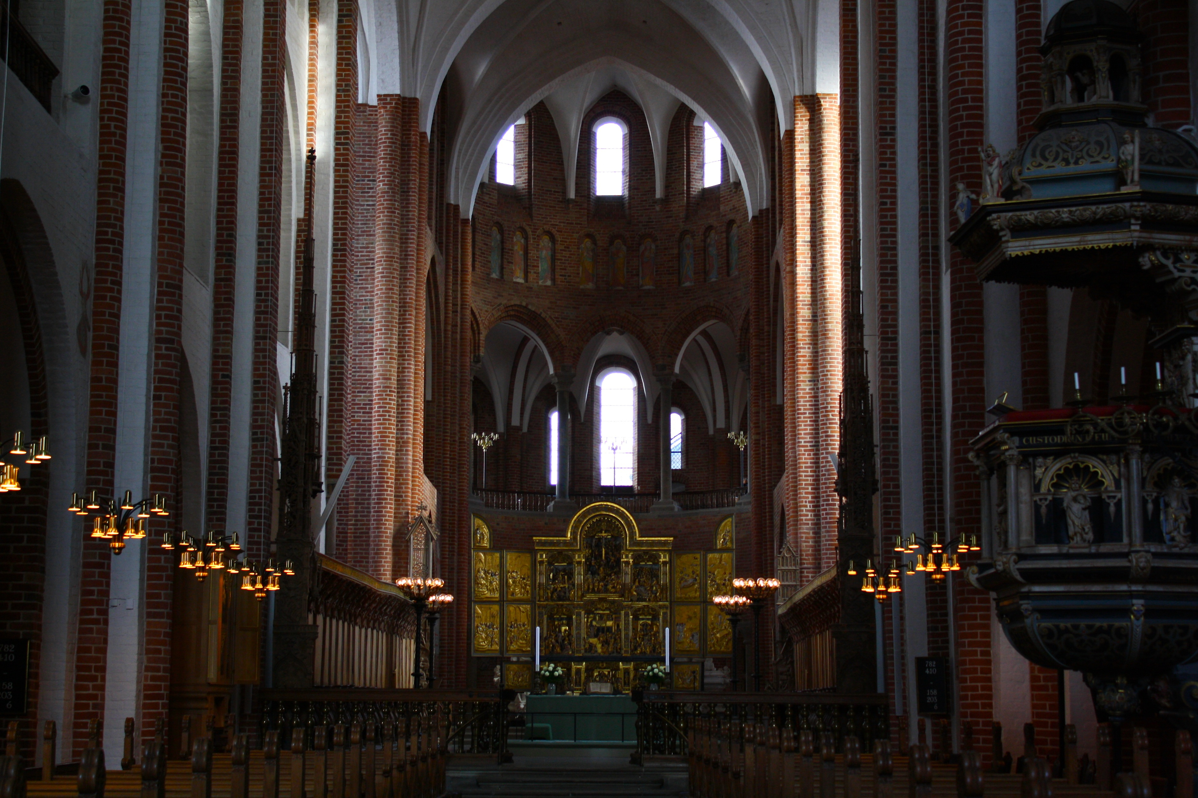 The interior of Roskilde Cathedral